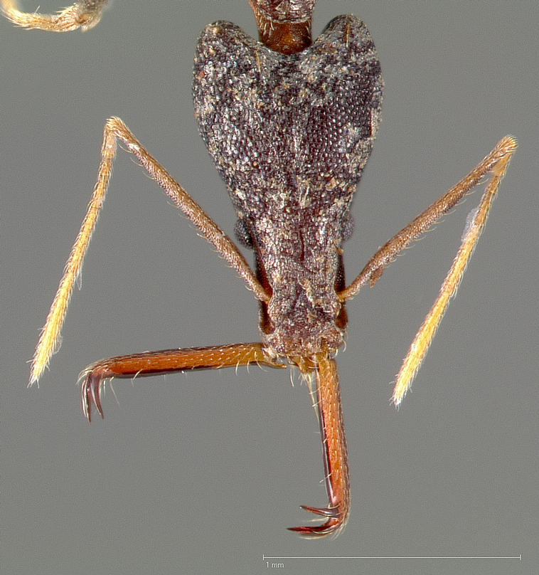 Head view of ant Strumigenys agra specimen casent0005478.